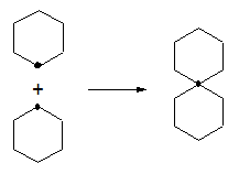 Spirocompounds construction